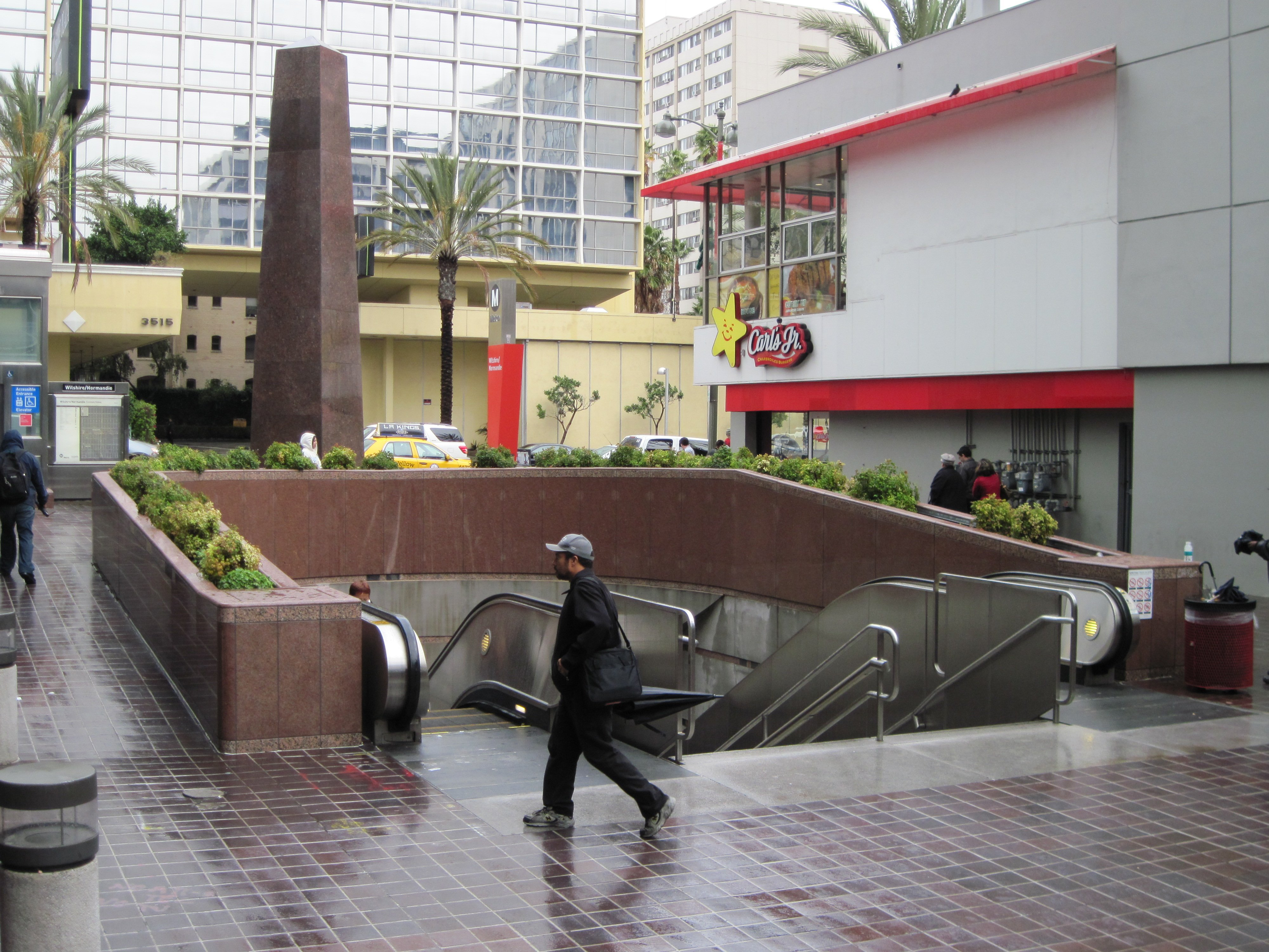 The Los Angeles Metropolitan Transportation Authority's Wilshire/Normandie station, serving the Metro Purple Line in Los Angeles, California, USA.